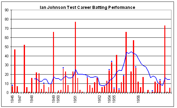 Test batting chart of Ian Johnson (cricketer). Red columns are the runs in the innings. Blue dots indicate not outs. Blue line is average in the last ten innings. Thanks to Raven4x4x for providing the template.